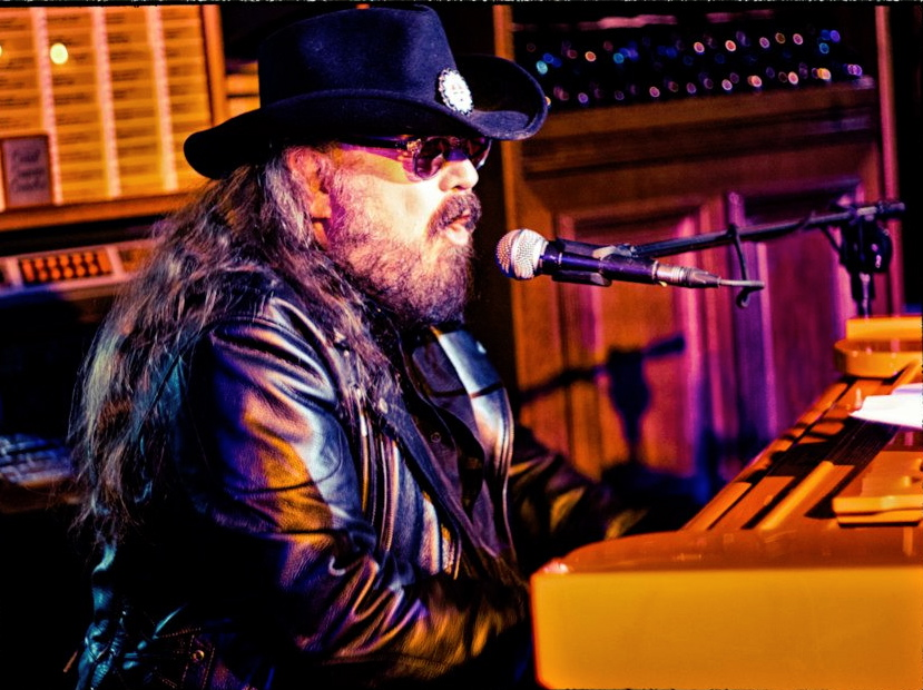 Grayson Hugh Performing at Pomarańczowy Fortepian (The Orange Piano) , Pila, Poland, Acoustic Tour 2012